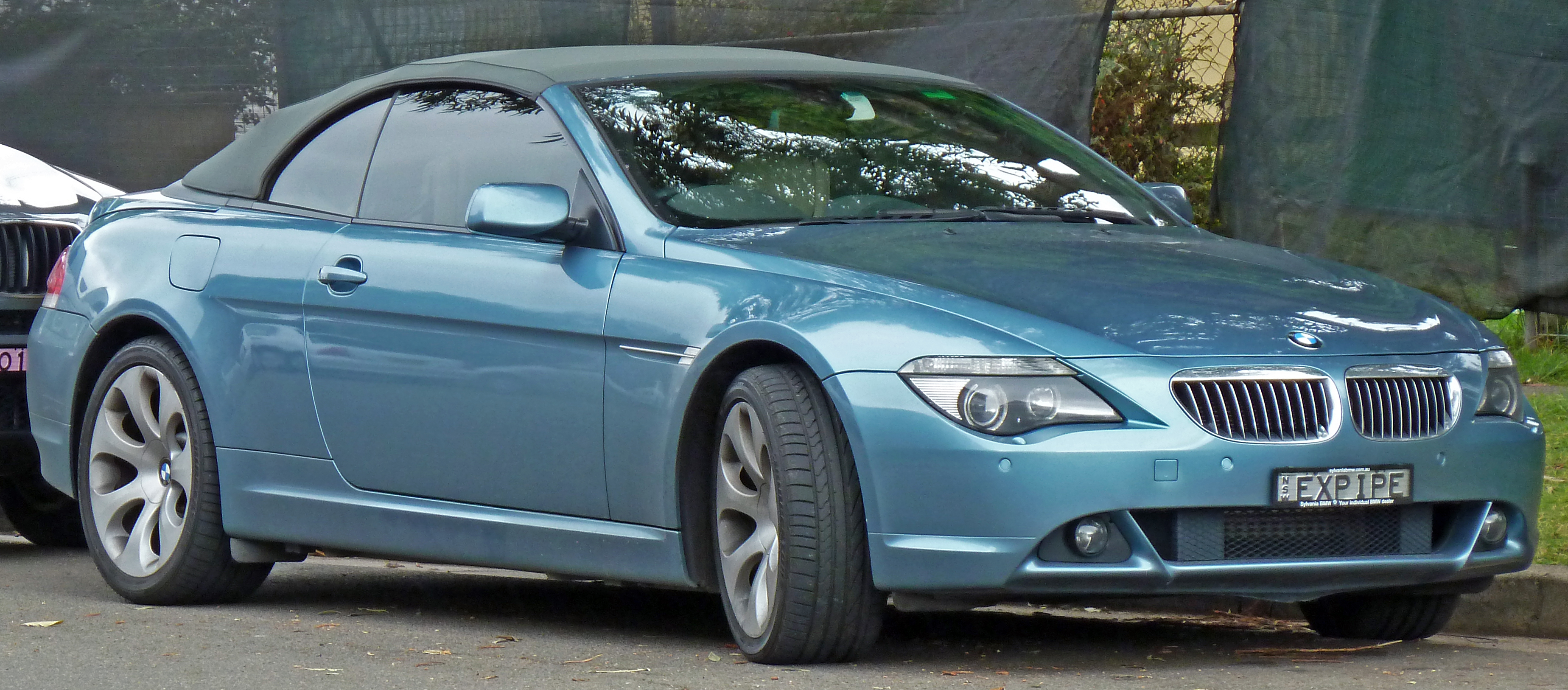 2004 BMW 645ci (E64) convertible. Photographed in Gymea, New South Wales, Australia.